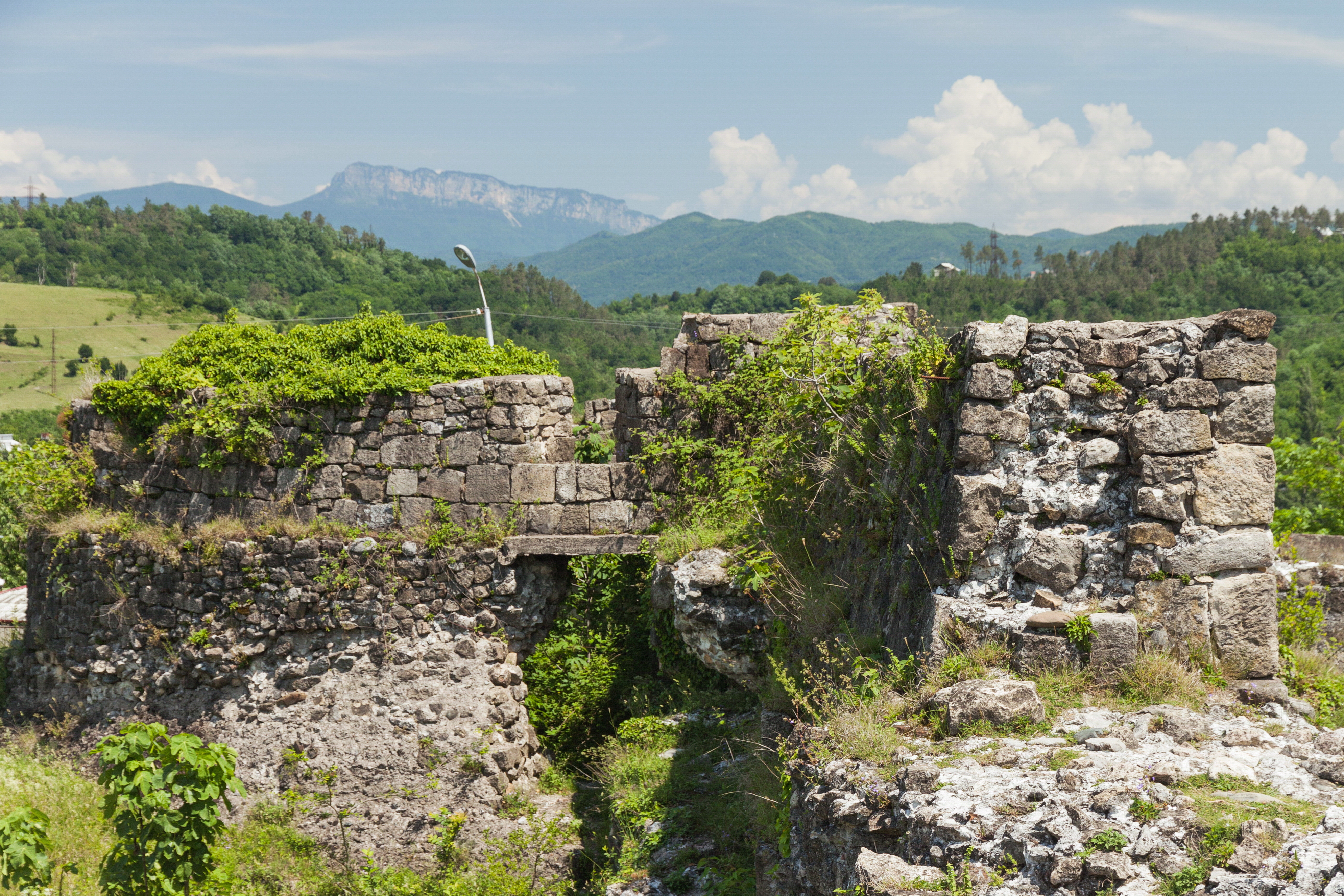 Ruins of the Ukimerioni Fortress. Kutaisi, Imereti, Georgia.